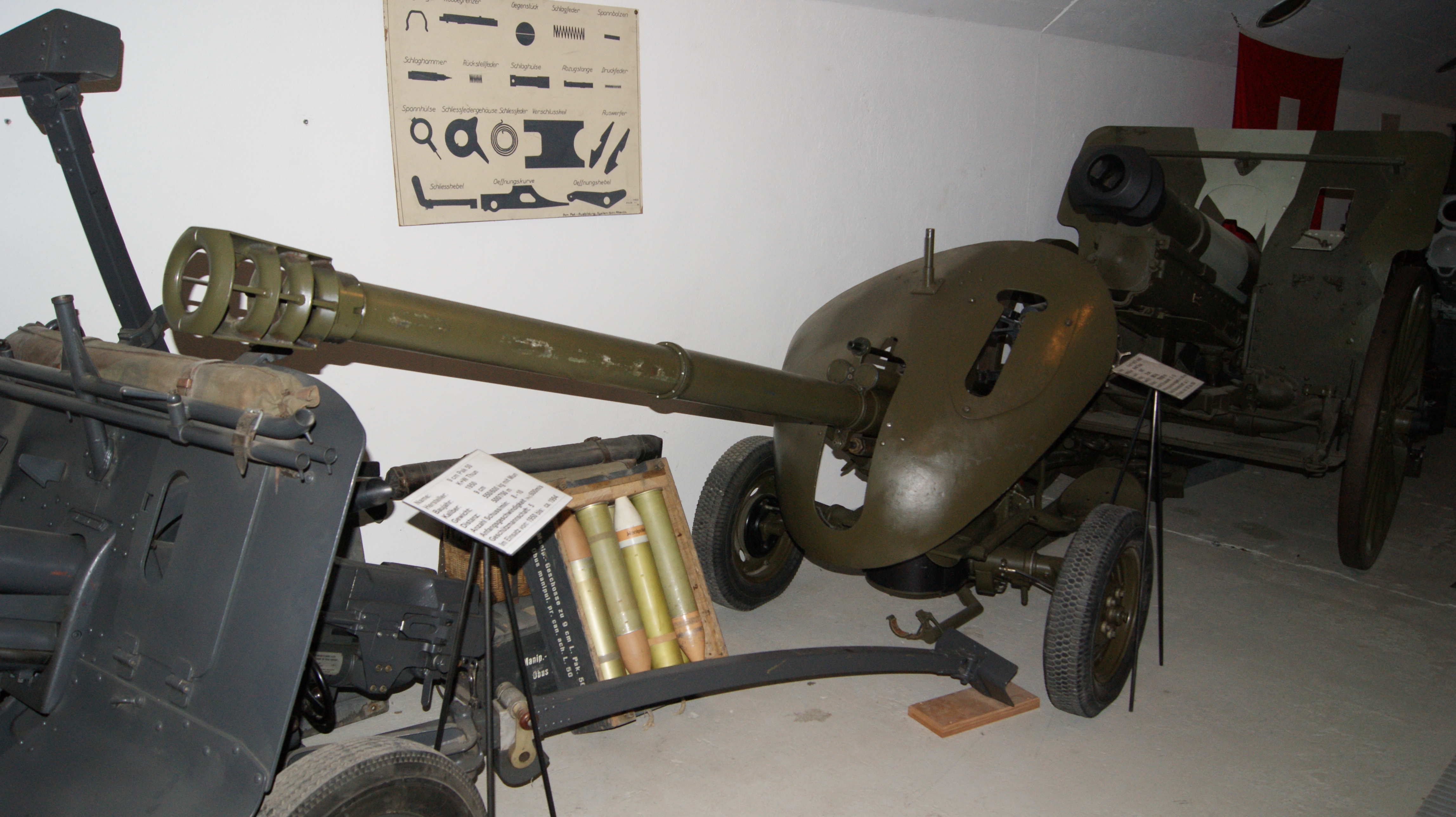 Fort Magletsch - Weapons exhibition - 9 cm PAK 57 mobil, Manufacturer: K + W Thun; Built in 1957; Caliber 9cm; Weight: 665 kg with ammunition; Firing distance: 700/900m; 8 to 10 rounds per minute; Shot speed: 600 m / s; Operating Time: 1957 bis 1994th